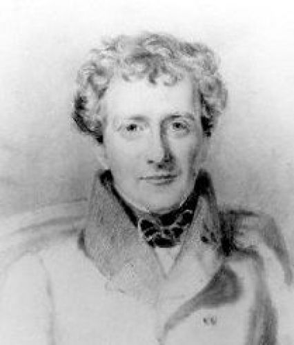 A picture of English poet Thomas Haynes Bayly, died in 1839. It is extremely unlikely this one could be copyrighted.